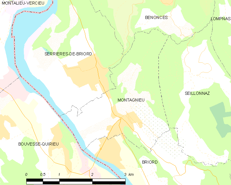 Map of French commune: Montagnieu Map commune FR insee code 01255.png